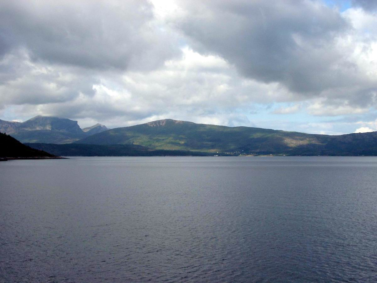 View from the ferry crossing Tysfjord in Nordland, Norway